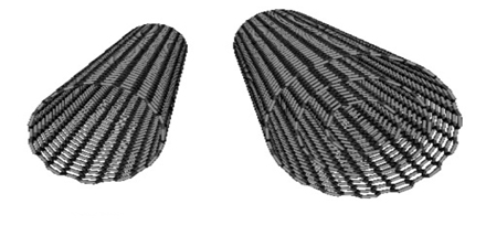 Nanotubes